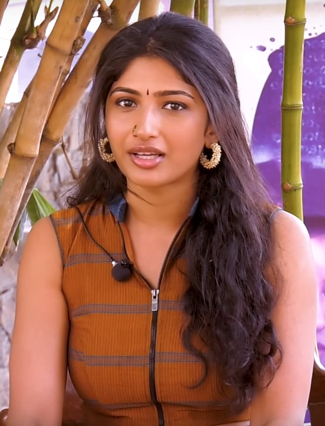 Roshini Prakash Interview